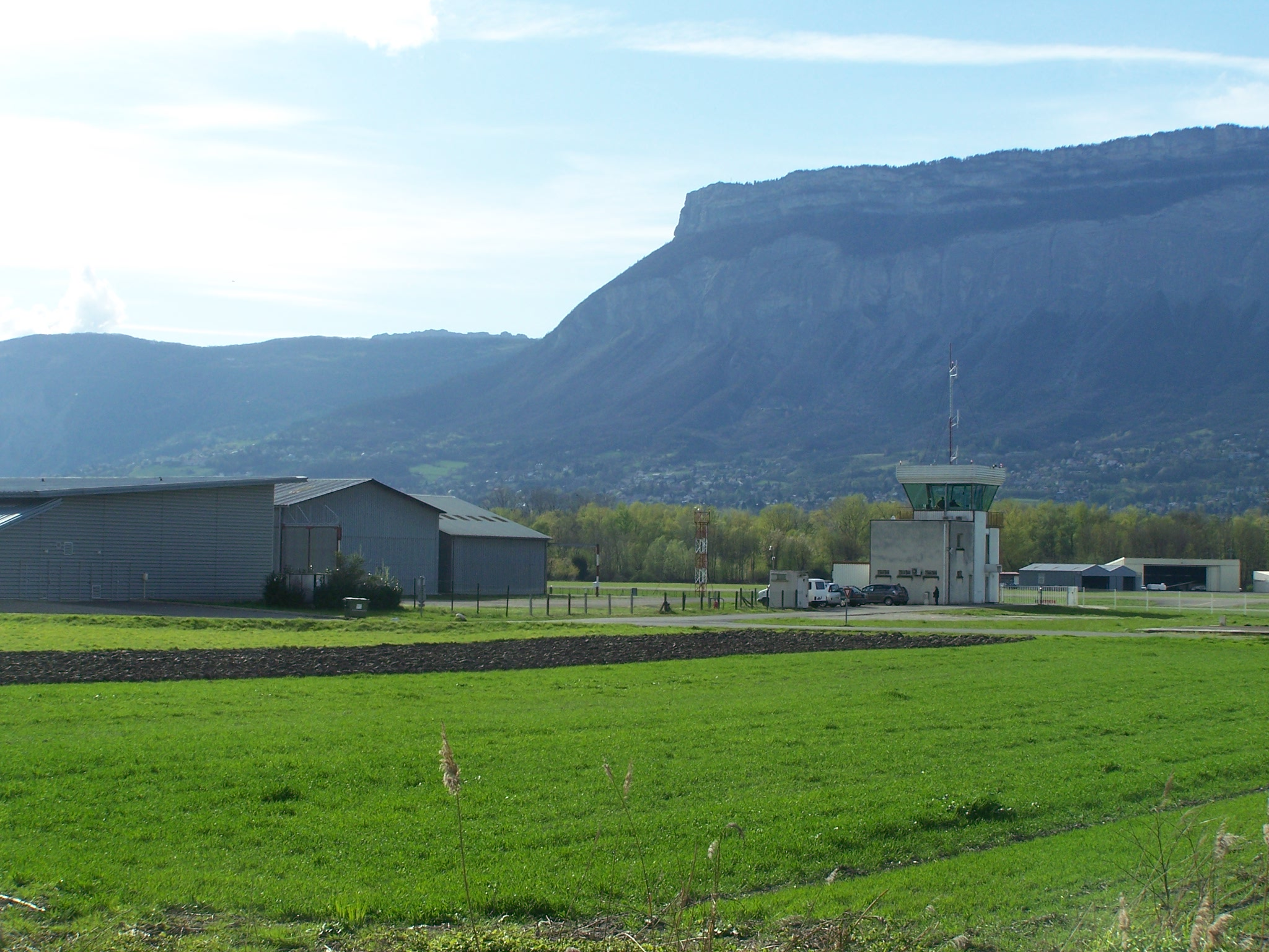 Sight of the Grenoble - Le Versoud aerodrome, in Isère, France.